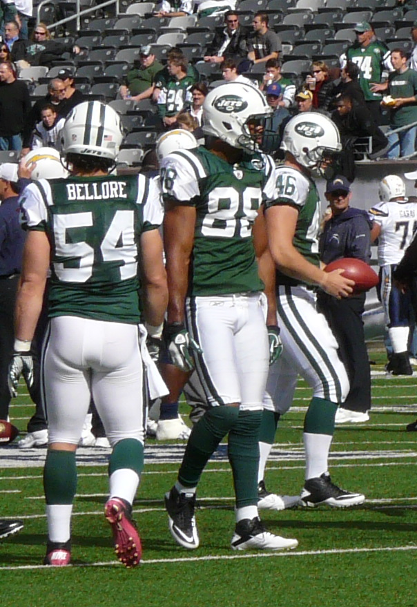 New York Jets Quarterback Mark Sanchez and Wide Receiver Santonio Holmes